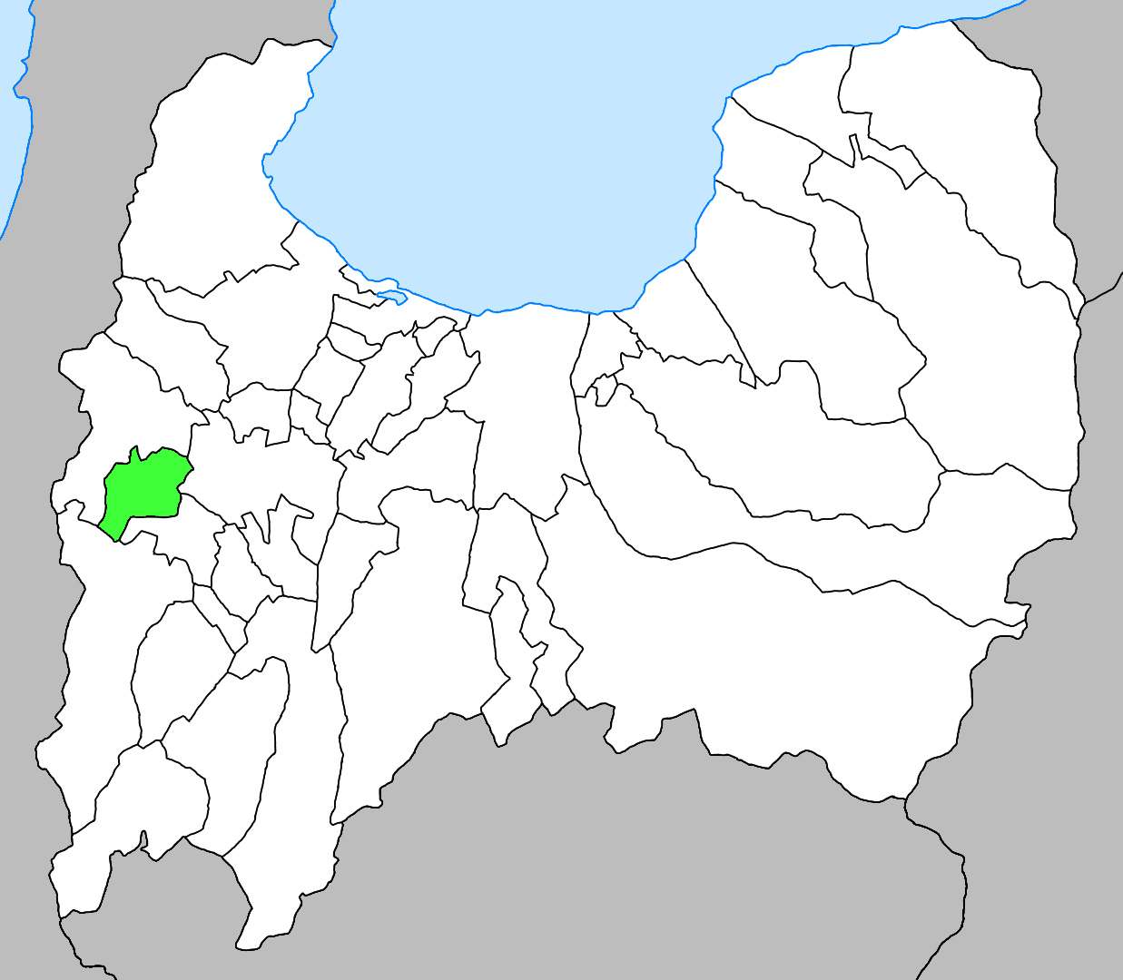 Map of Tochu-machi, Toyama Prefecture